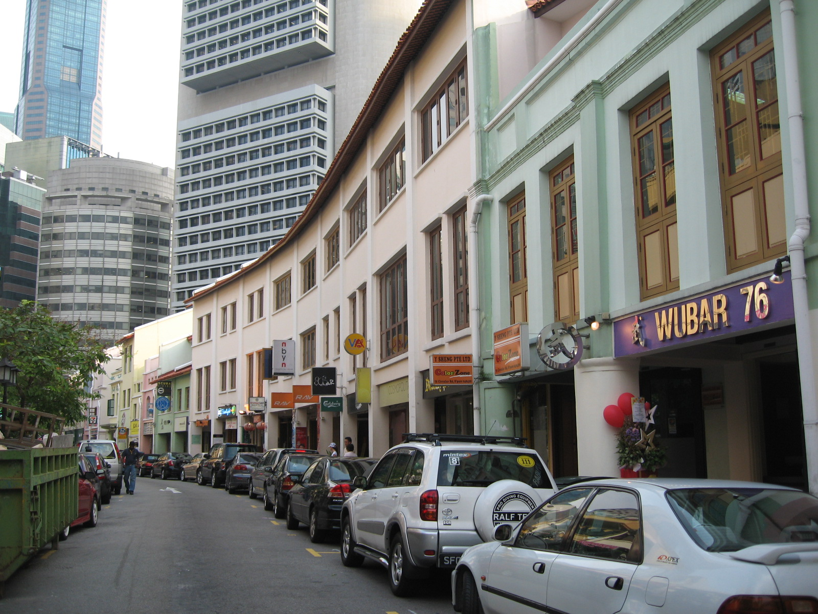 Circular Road.